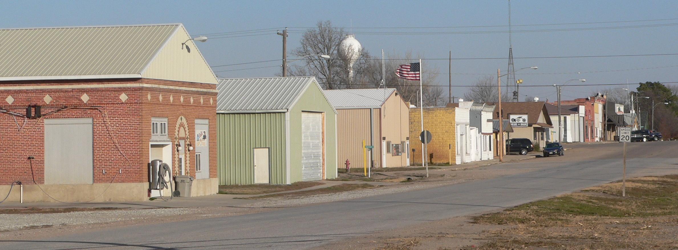 Downton Palmer, Nebraska: north side of Commercial Street; camera is facing northeast.